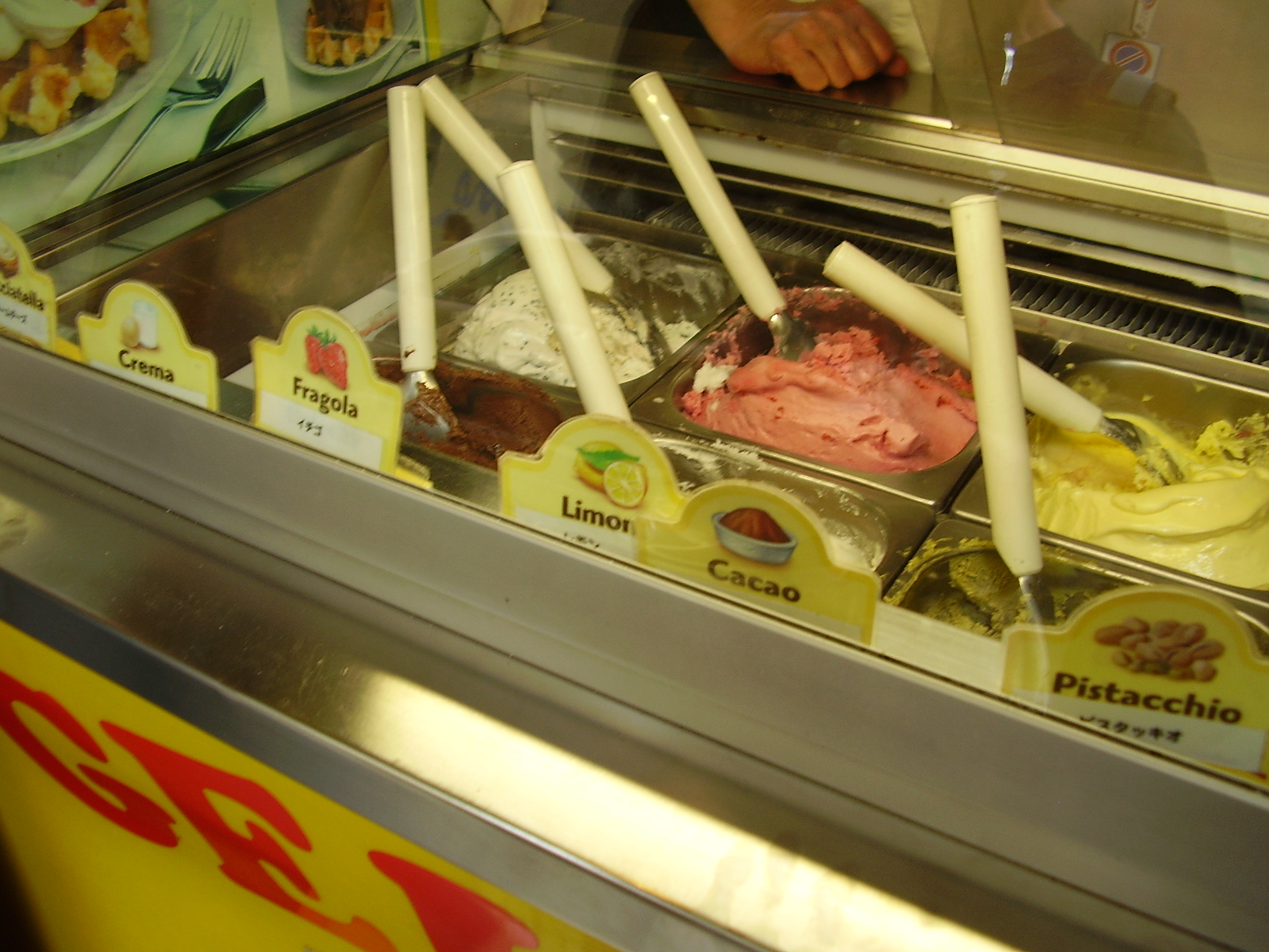 Flavours of gelato - Florence, Italy